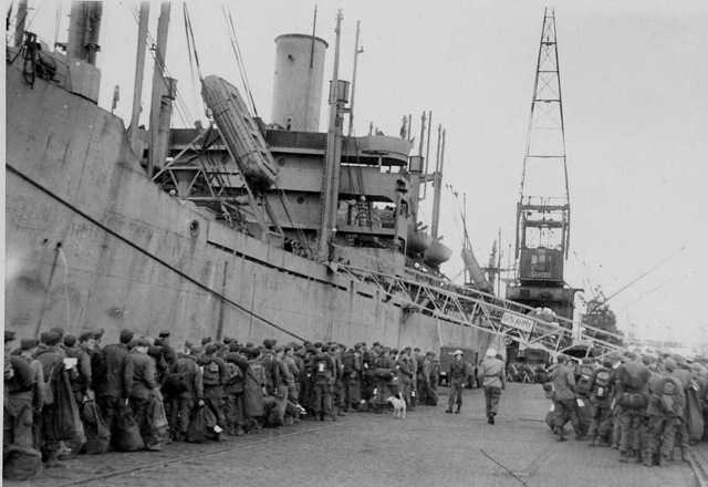 1269th Engineer Combat BN (19 August 1945) Dock in Antwerp Harbor, Belgium Boarding a troopship for the voyage home